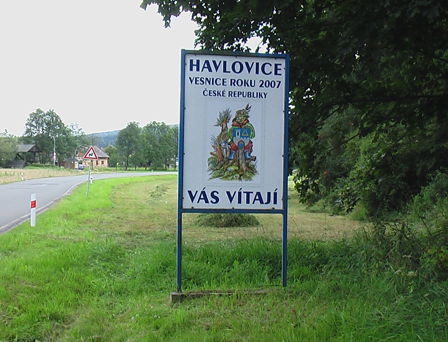 Blackboard pointing to victory in the poll Havlovice Village of the Year